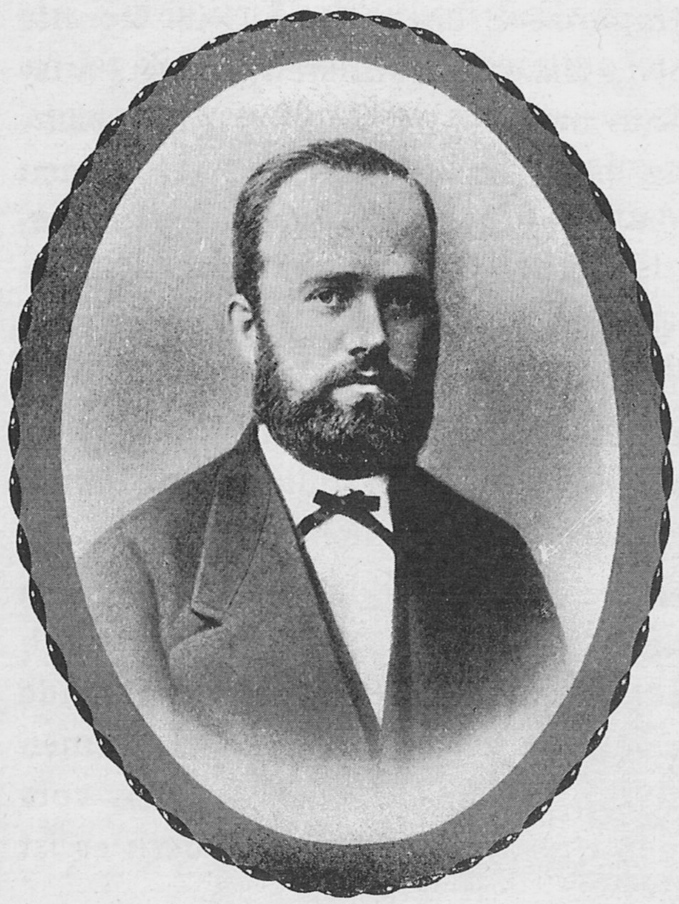 Christian Schmidt (1884) Founder of the NSU Motorenwerke Neckarsulm/Germany